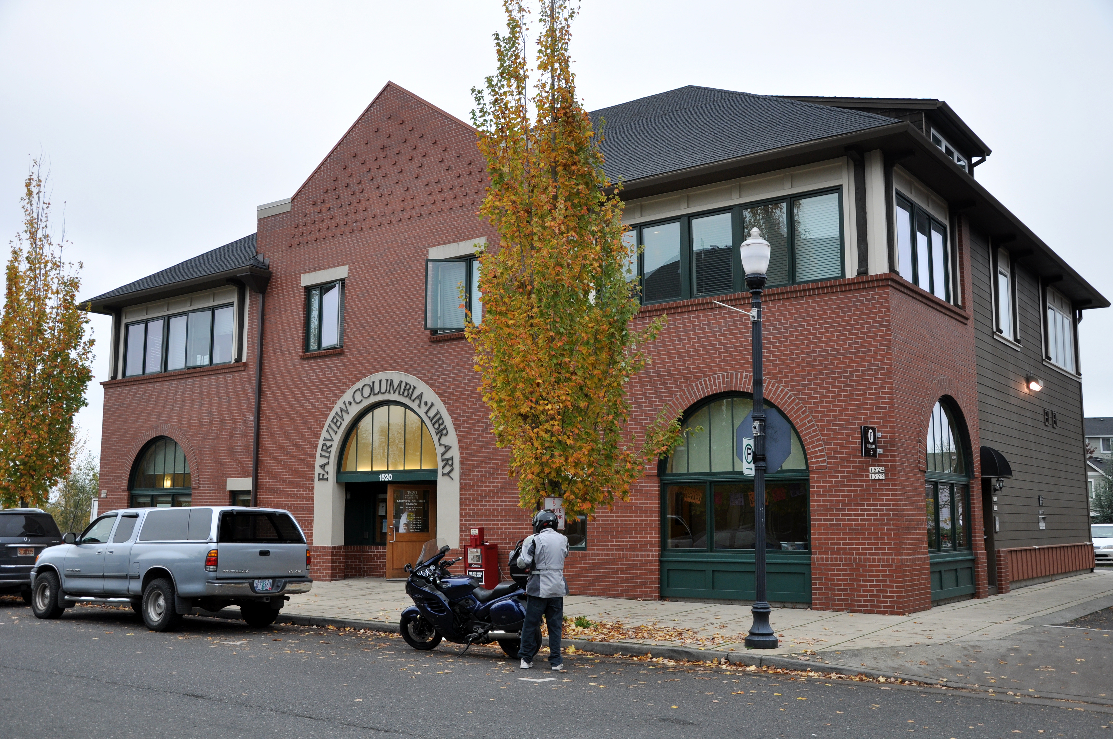 Fairview-Columbia Library, a branch of the Multnomah County Library in Portland in the U.S. state of Oregon